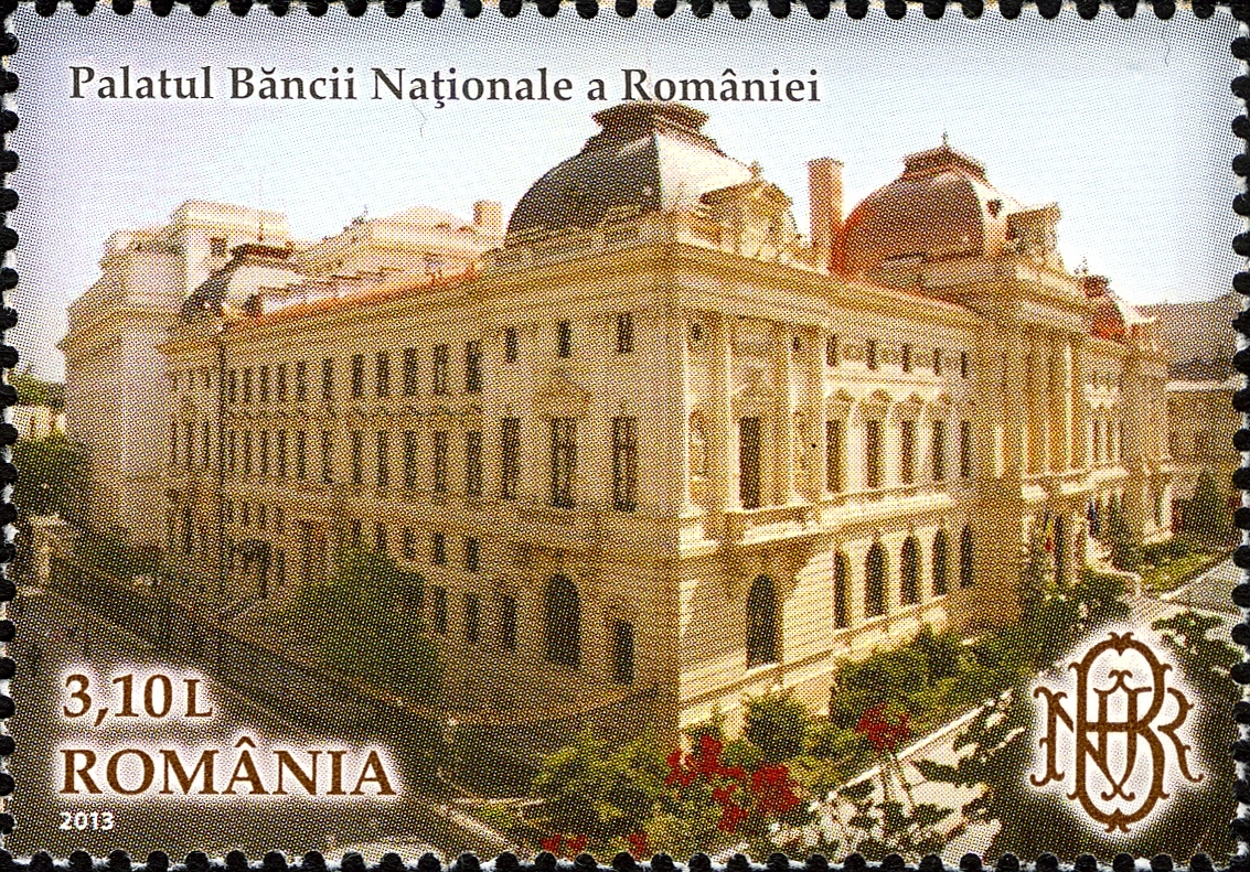 Stamps of Romania, 2013